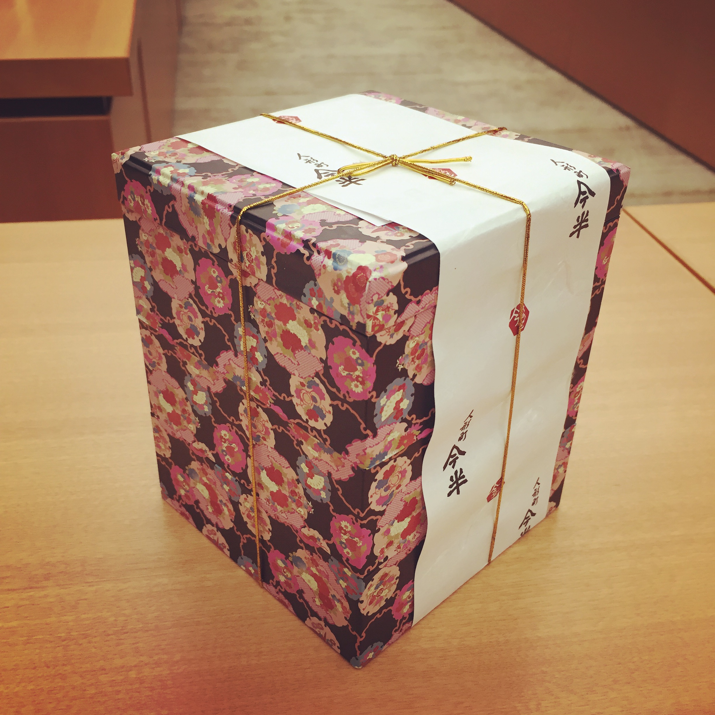 Japanese ORIZUME BENTO, or traditional meal in the paper boxes, served by Ningyocho Imahan Co,. Ltd.